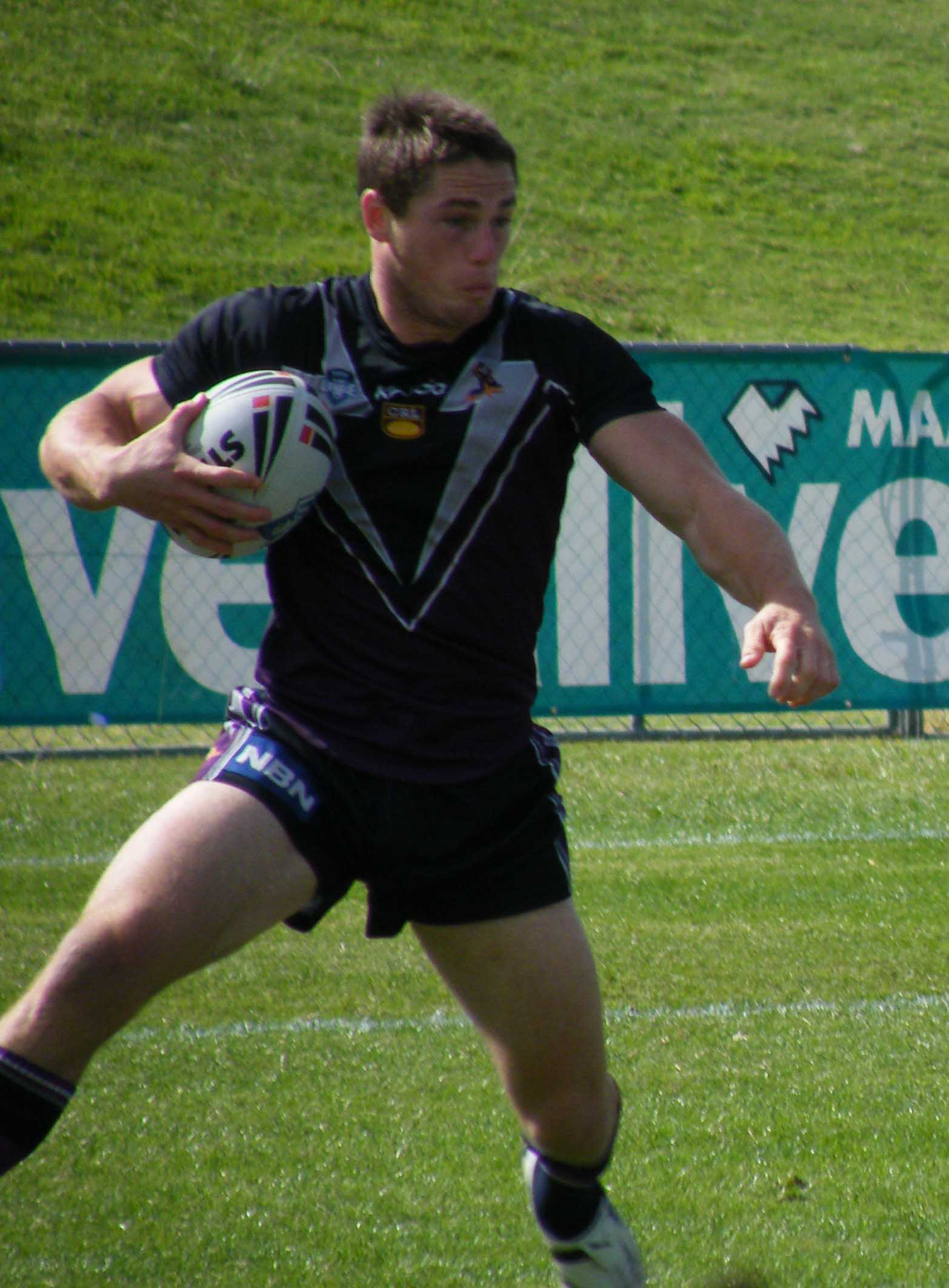 Brett Anderson of the Central Coast Storm.